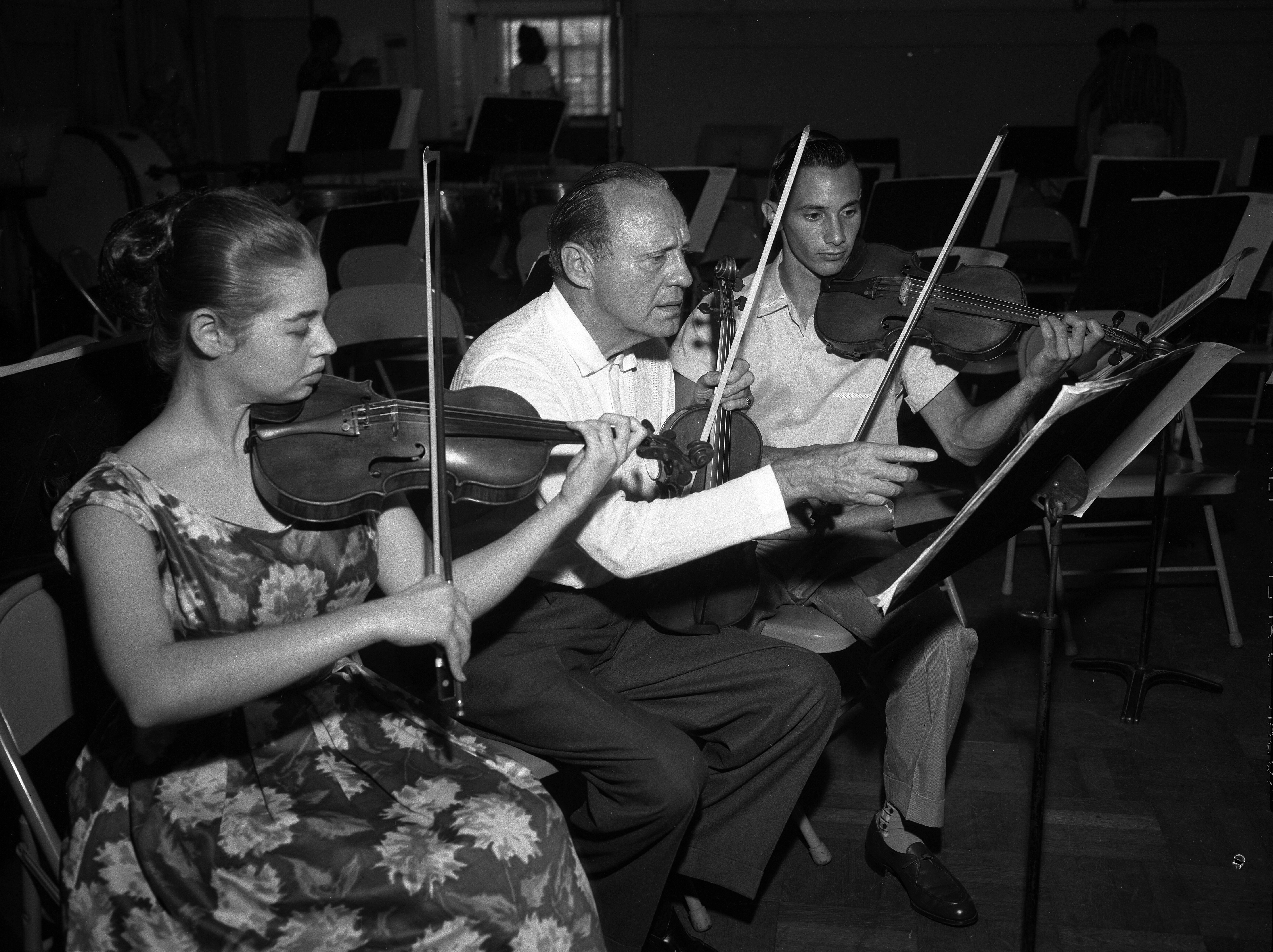 Title: Jack Benny rehearsal with members of the California Junior Symphony Orchestra, 1959 Published caption: BENNY REHEARSES WITH JUNIOR SYMPHONY STARS-Turning a serious moment toward his music, Jack Benny has engaged the California Junior Symphony Orchestra for the second half of his Greek Theater engagement, Aug. 10-22. Here, Benny emphasizes part of the arrangement during rehearsal with Charlotte Motley, 18, and Robert Korda, 18, members of group. Publication: Los Angeles Times Publication date: Sat, August 1, 1959 Source: Los Angeles Times photographic archive, UCLA Library Licensing: Note about non-renewal of copyright: [1]